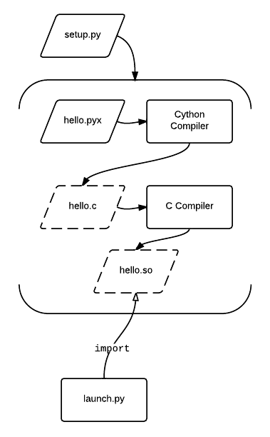 Created with